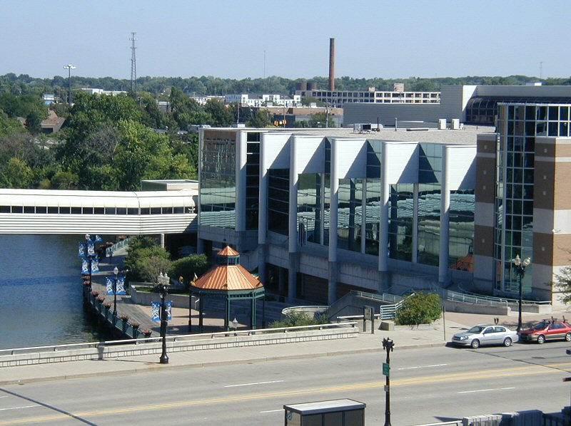 The Riverfront Plaza at the Lansing Center